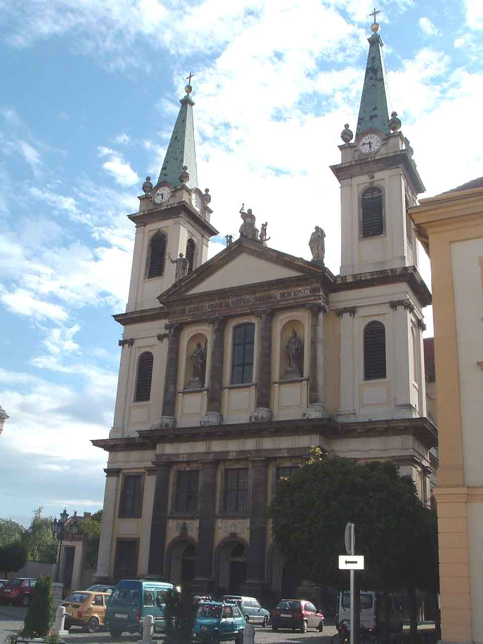 The Cathedral of Szombathely, Hungary This is a photo of a monument in Hungary. Identifier: 9440